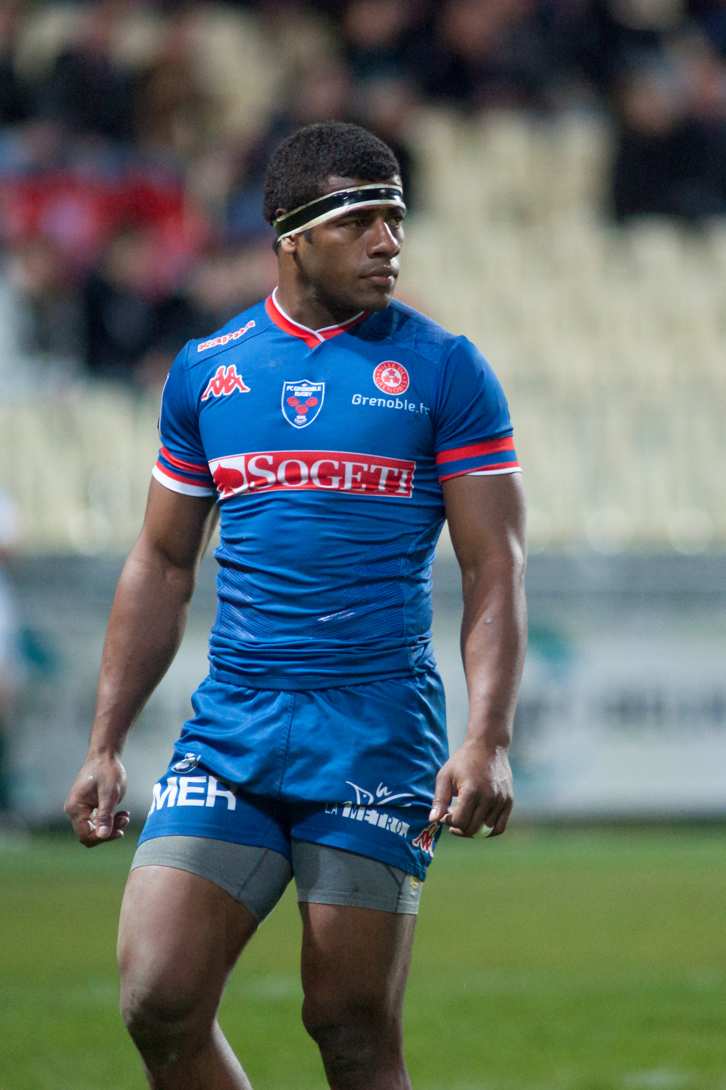 The making of this document was supported by Wikimedia CH.(Submit your project!) For all the files concerned, please see the category Supported by Wikimedia CH. Us Oyonnax vs. FC Grenoble Rugby, 29th March 2014